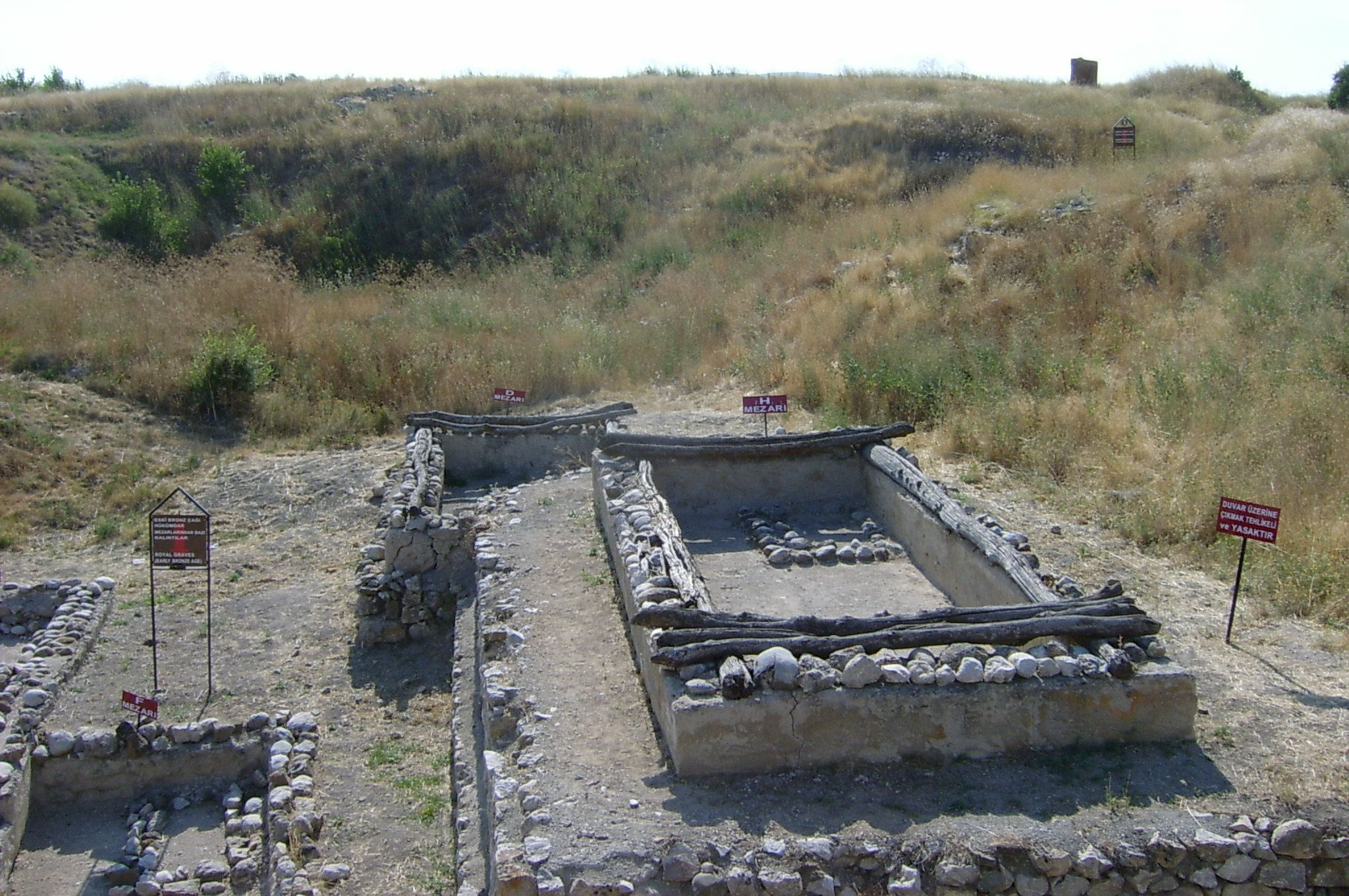 Excavations of Alaca Hüyük